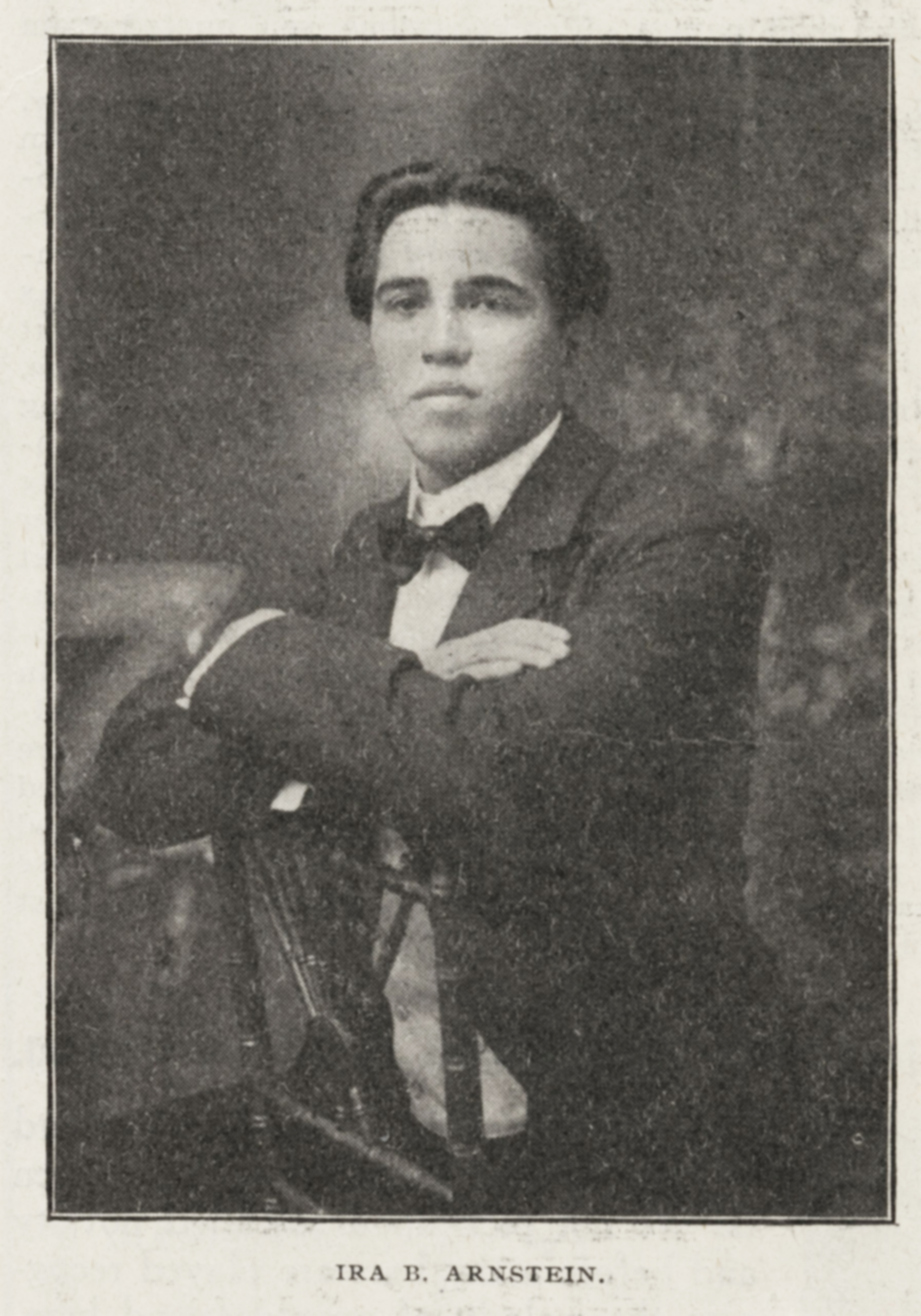 Ira B Arnstein from Musical observer Volume 1 (1907)